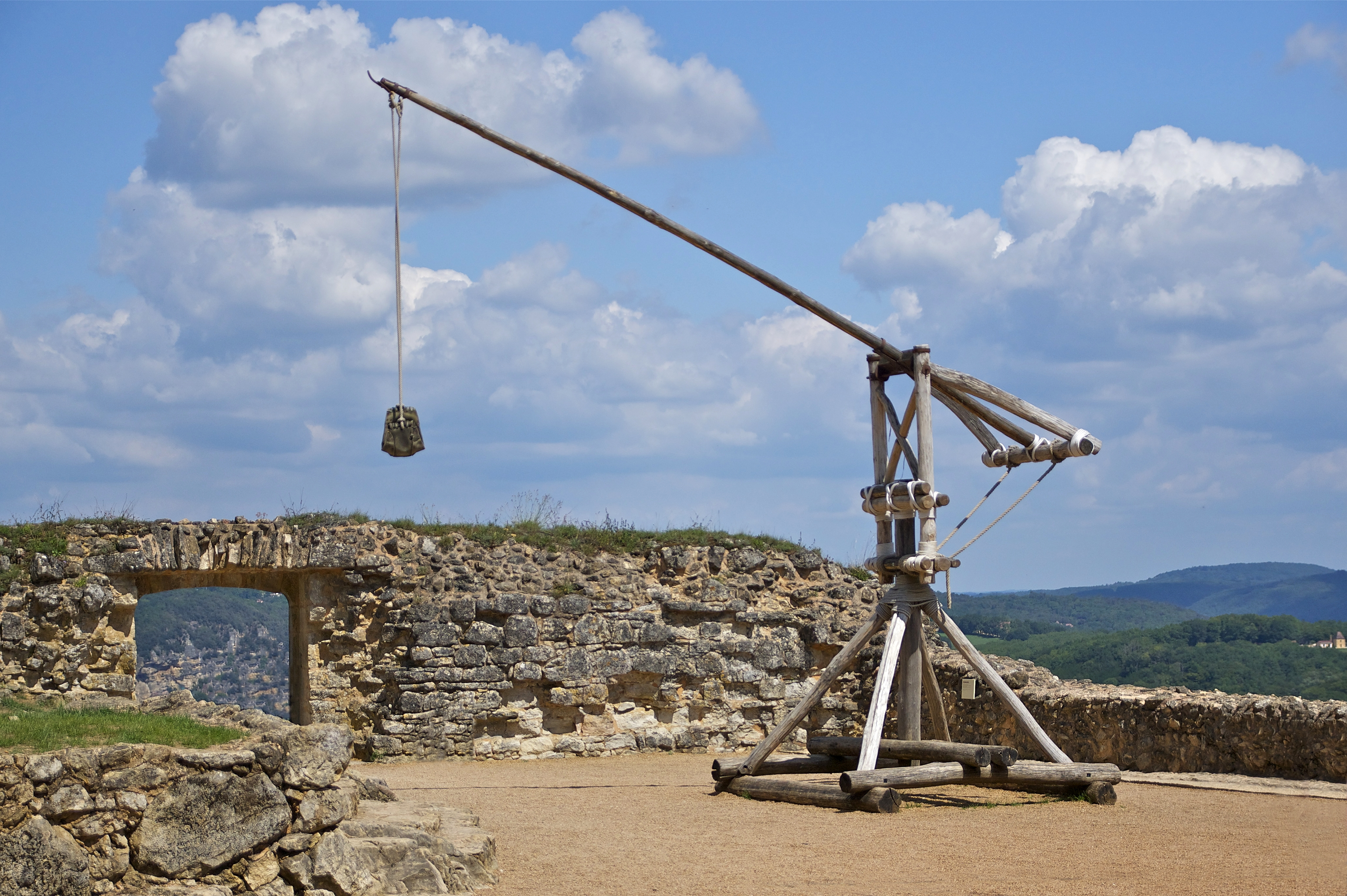 A reconstructed trebuchet, Château de Castelnaud, Dordogne, France.